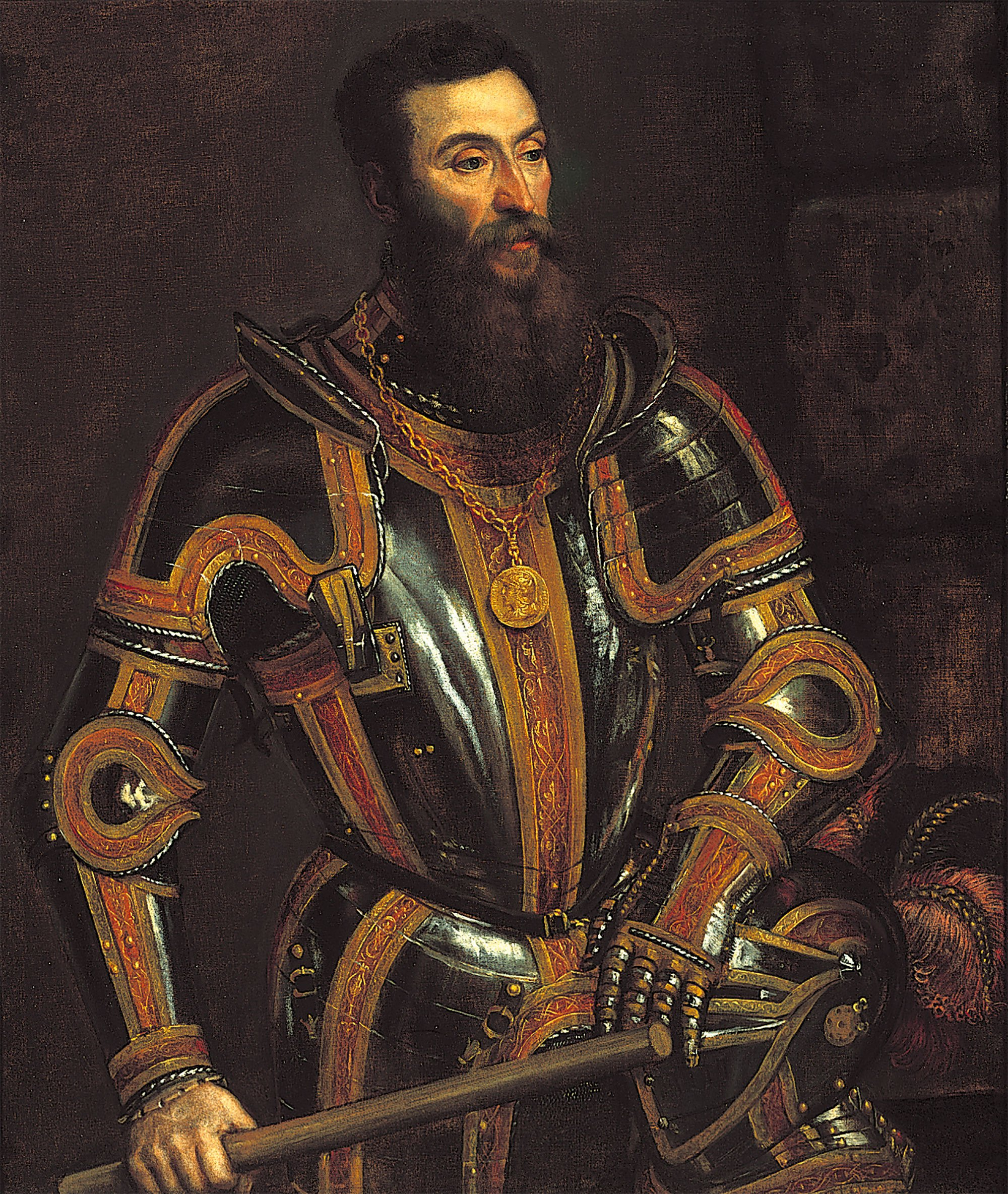 Portrait of Giovanni Battista di Castaldo by Titian, oil on canvas, 119.5 x 98.6 cm.